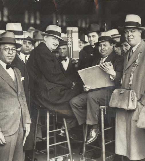 detail of larger photo showing Tim Mara at the track